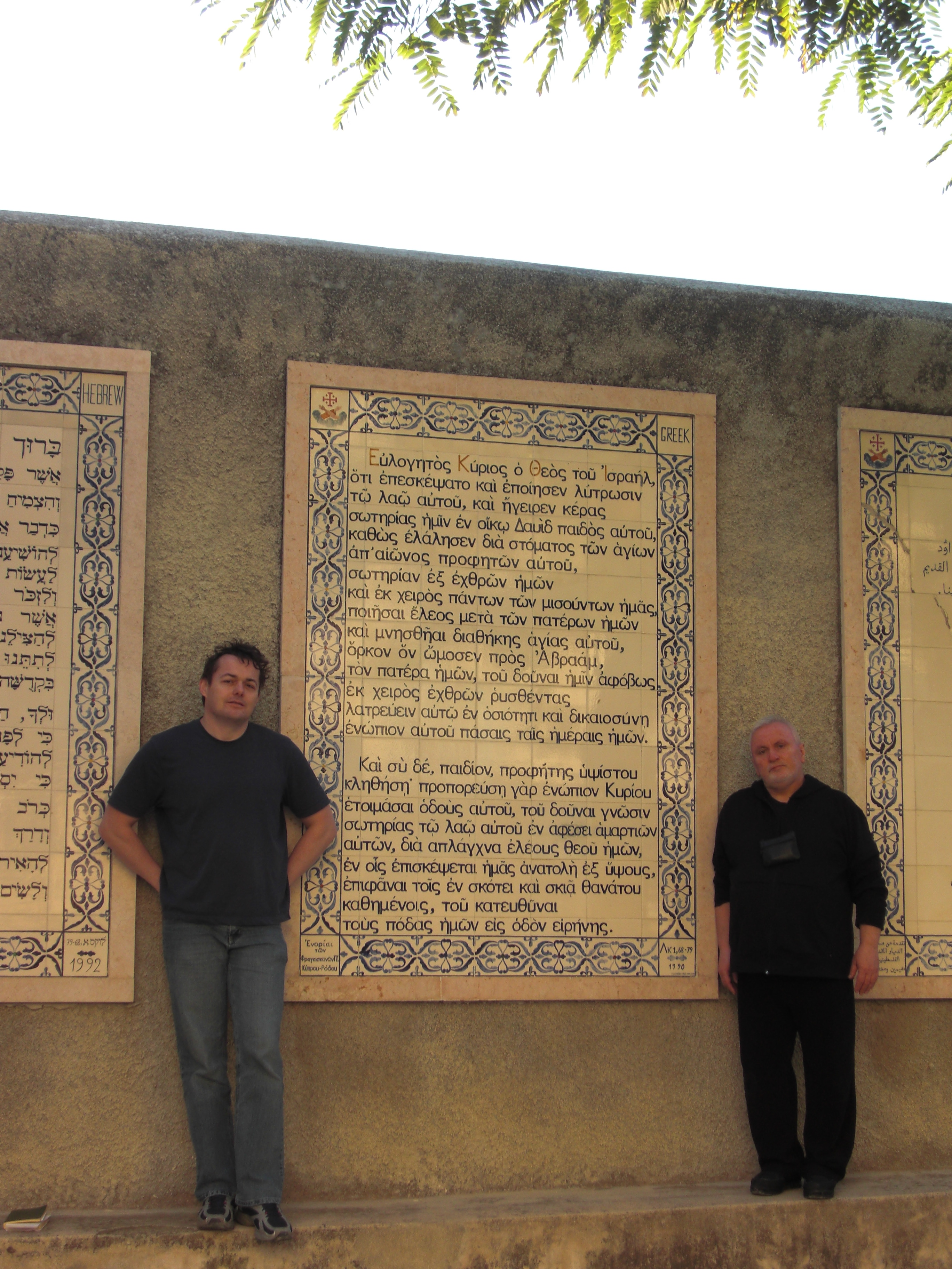 in the Church of the Pater Noster in Jerusalem